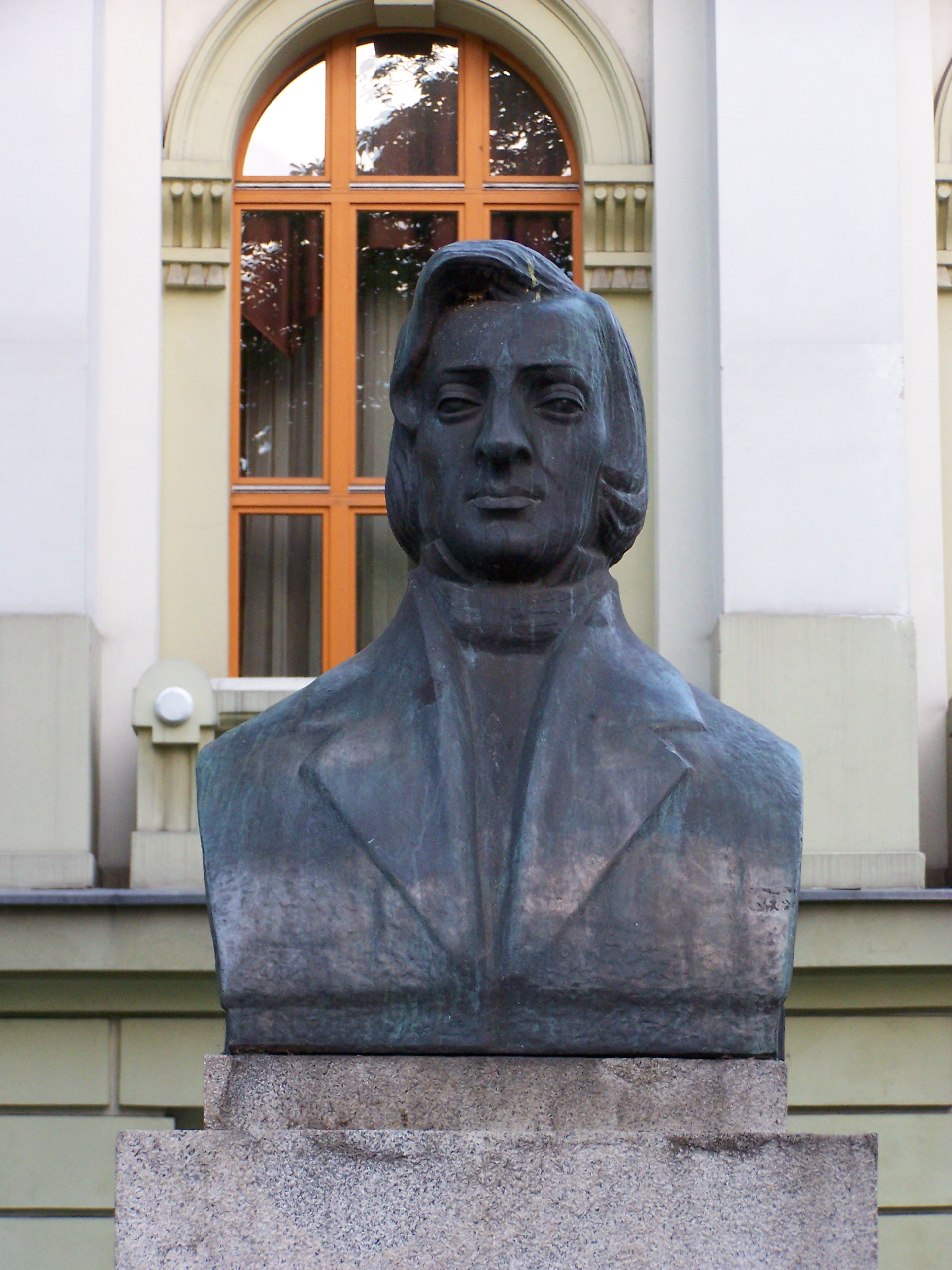 Fryderyk Chopin bust in Bytom (Poland).